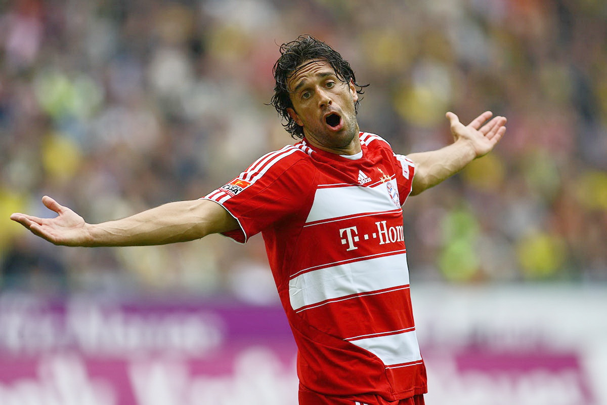 Luca Toni of Bayern Muenchen in action during the 1. Bundesliga match between Borussia Dortmund and FC Bayern Muenchen at the Signal Iduna Park on August 23, 2008 in Dortmund, Germany.